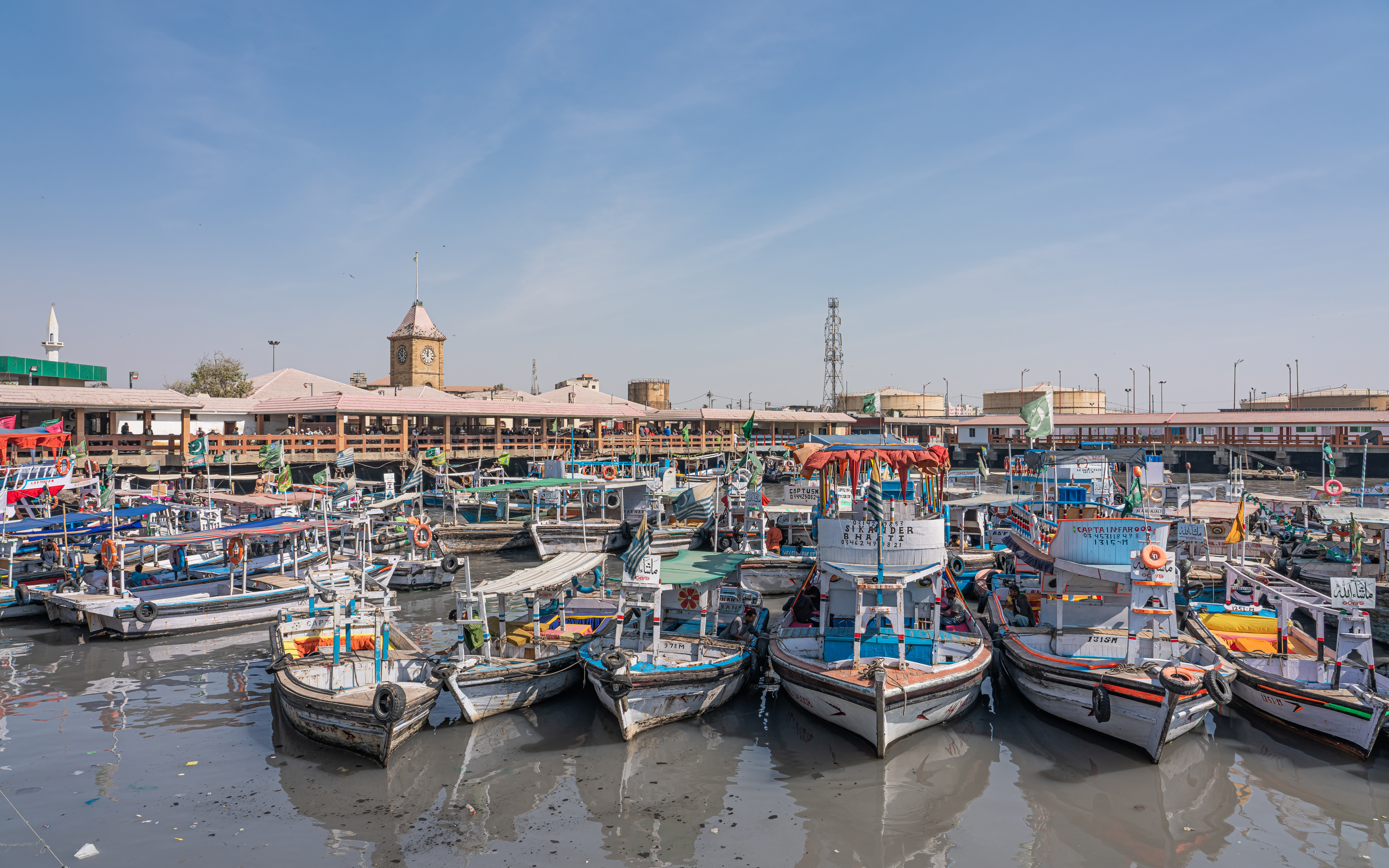 Keamari boat harbour in Karachi, Pakistan